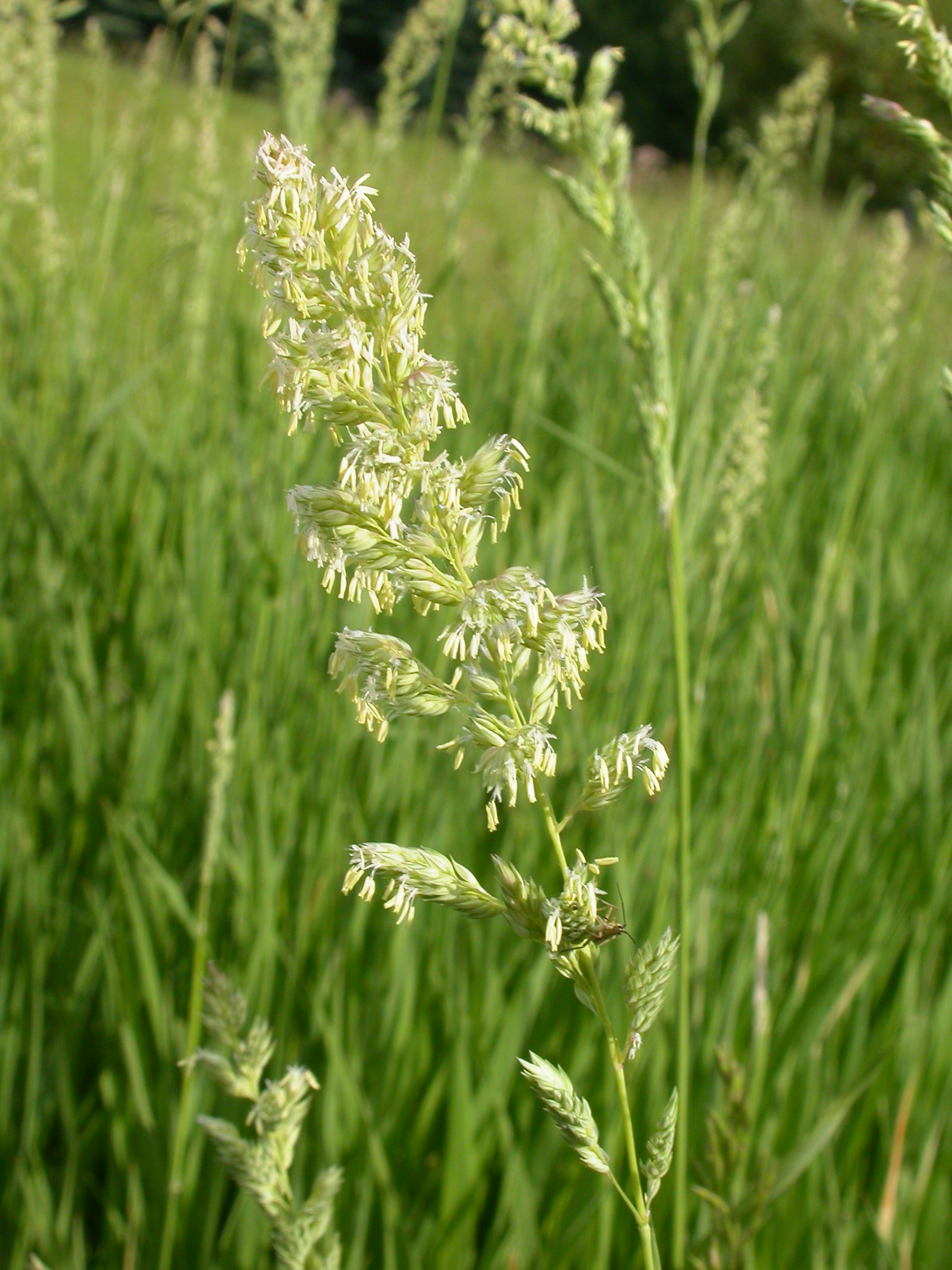 The inflorescence is narrow and contracted early and late in the year, but during mid summer flowering, the panicle branches spread and the spike opens.